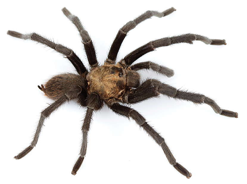 Aphonopelma armada male